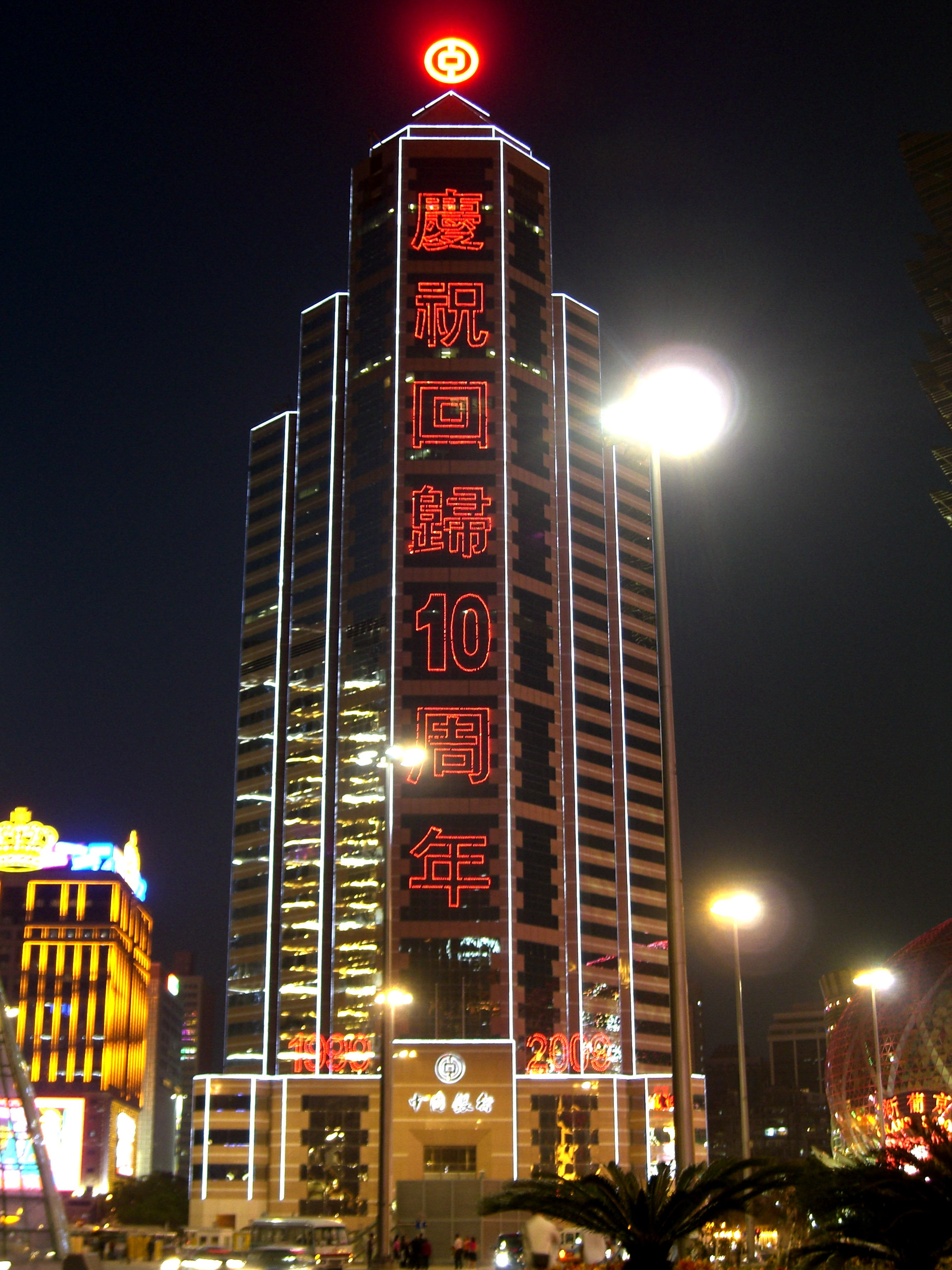 Bank of China Building, Macau, with the decoration for celebrating the 10th anniversary of Macau SAR